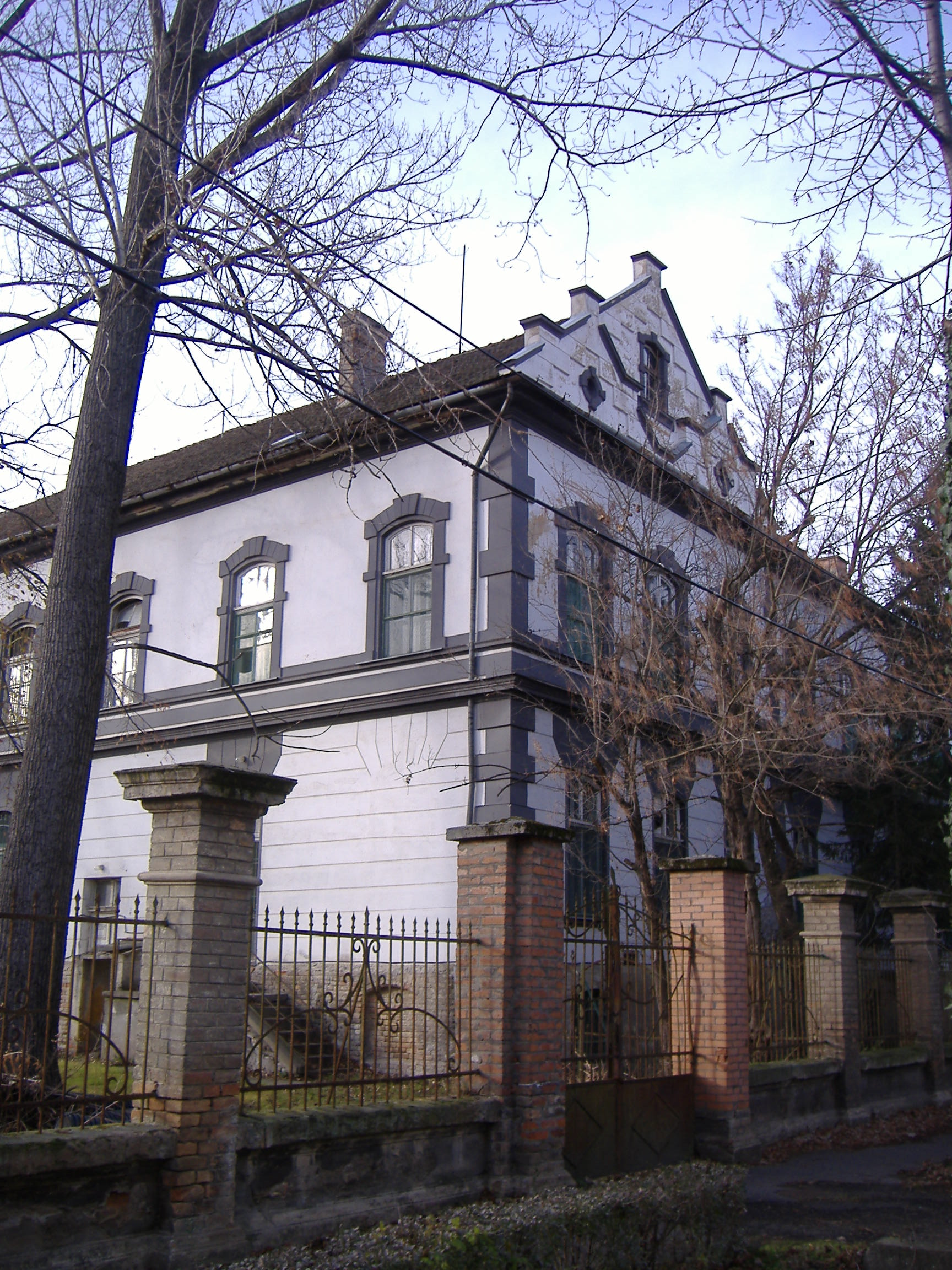 The Elisabeth Orphanage in Makó, Hungary.